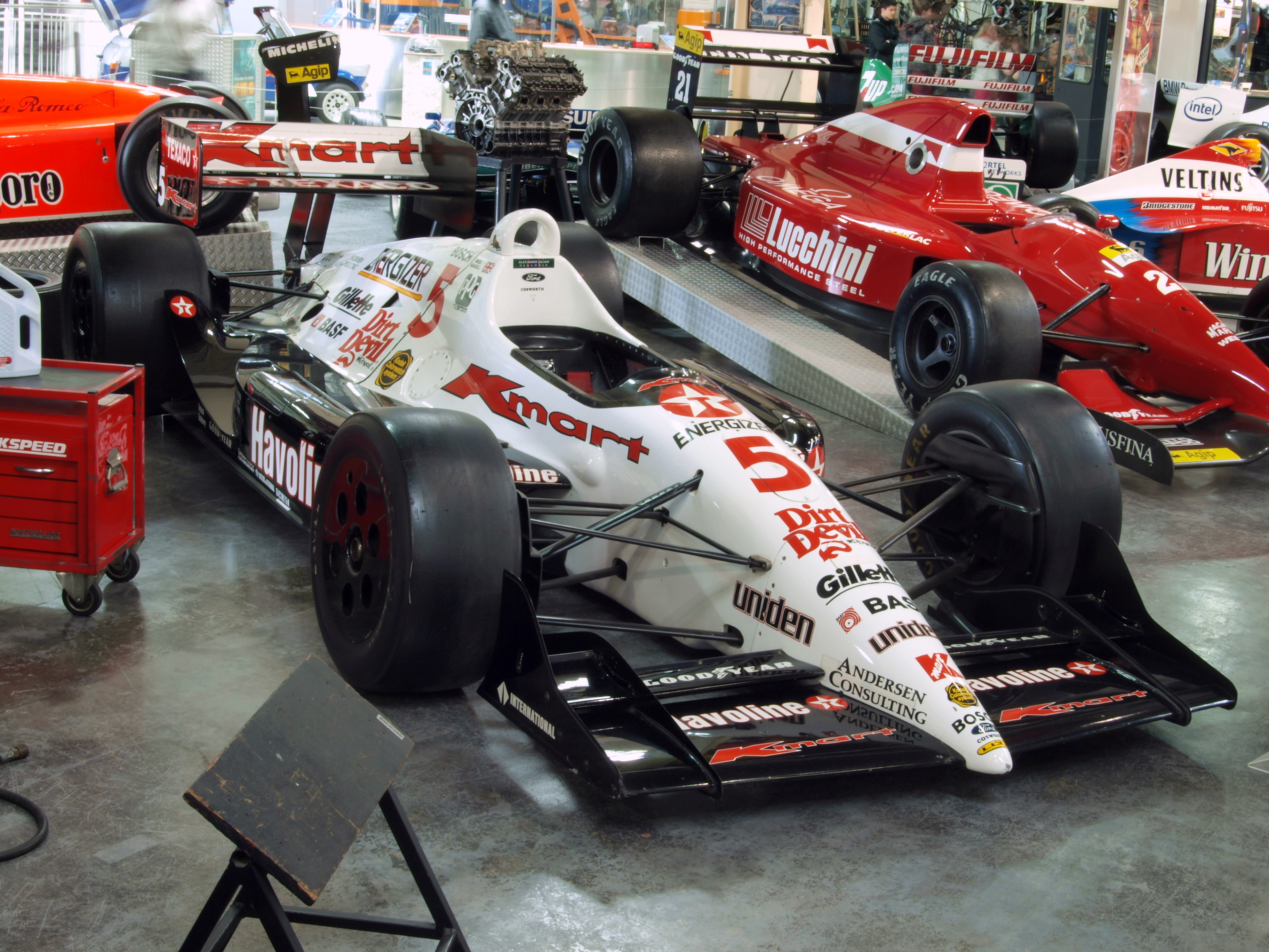 Photographed at the Auto & Technic museum Sinsheim.